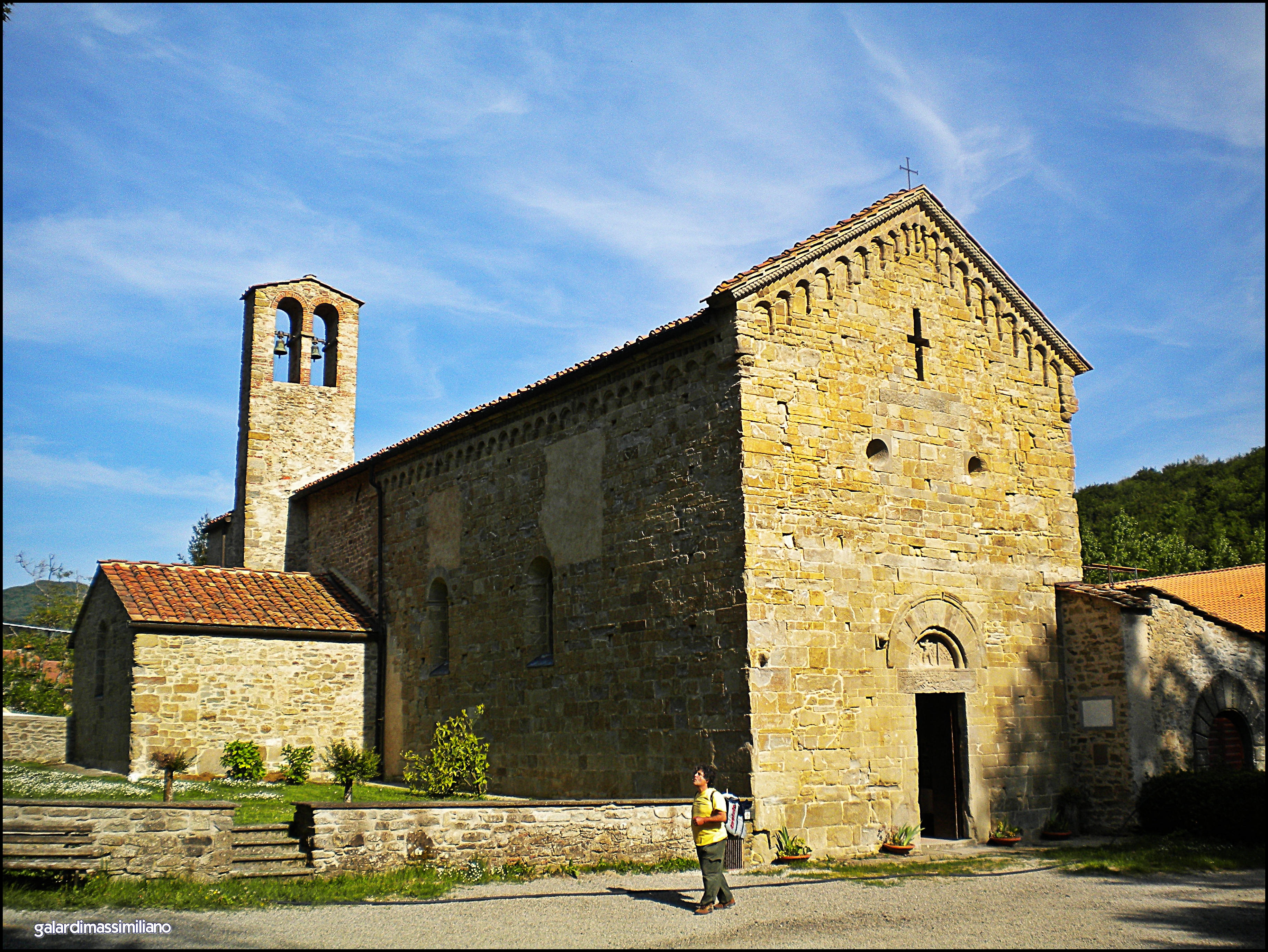 the abbey of Santa Maria is located near Montepiano (La badia) in the Vernio commune